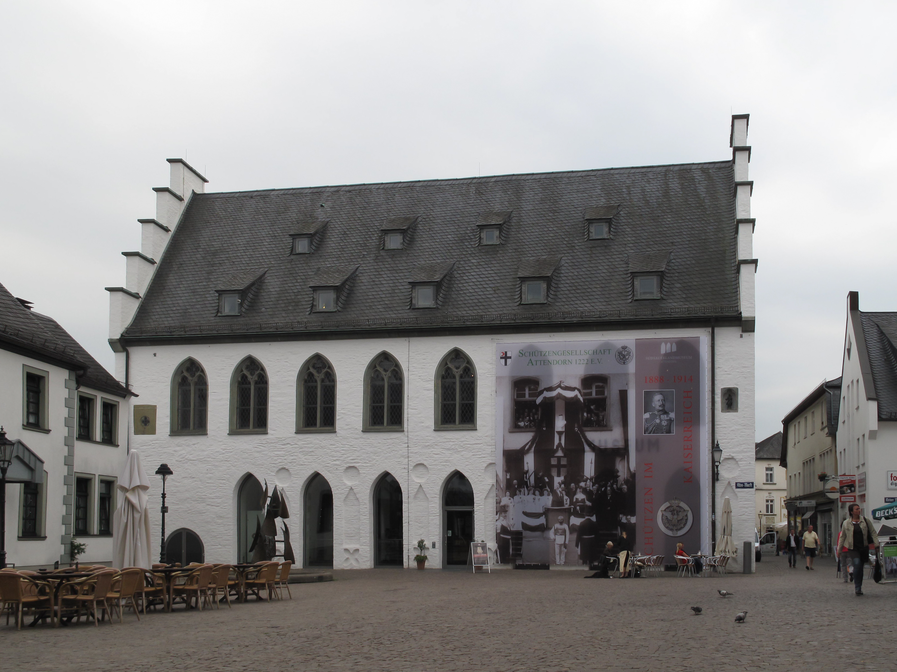 Attendorn, Südsauerland museum